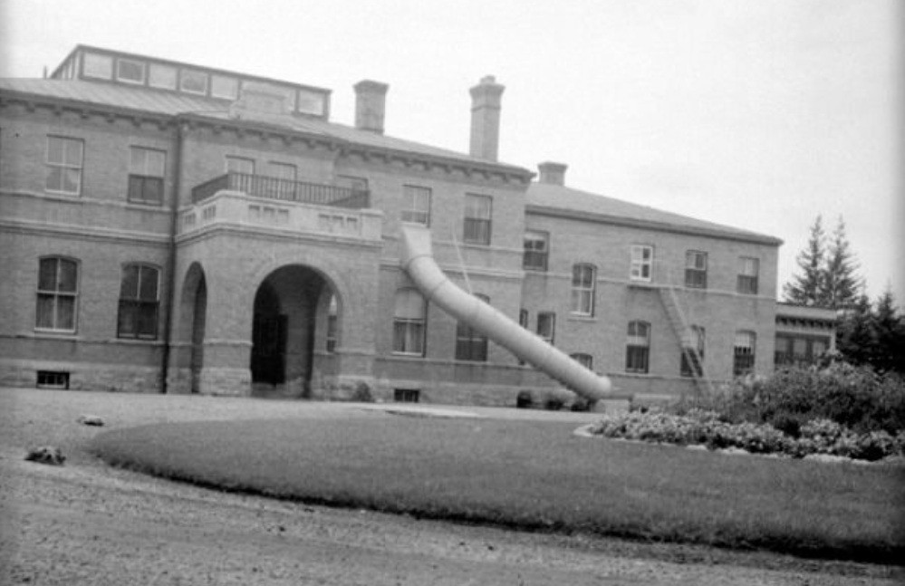 The former Government House, Regina, Saskatchewan, Canada.